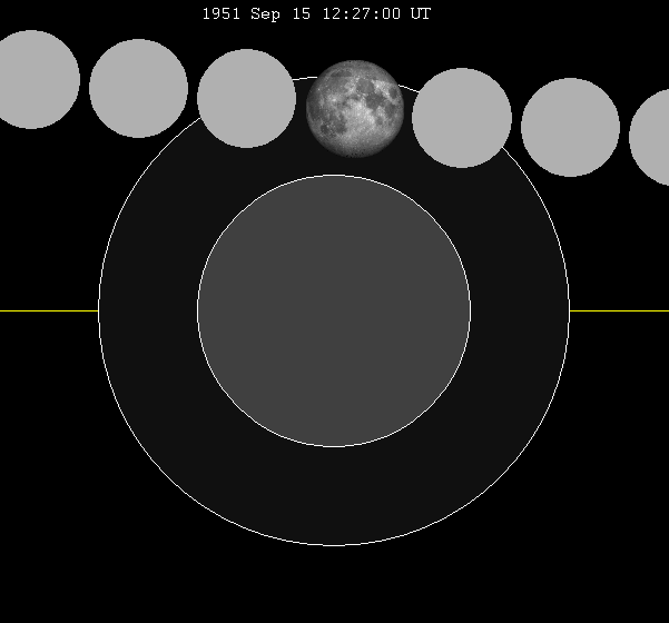 Lunar eclipse chart of moon's path through the earth's shadow. thumb